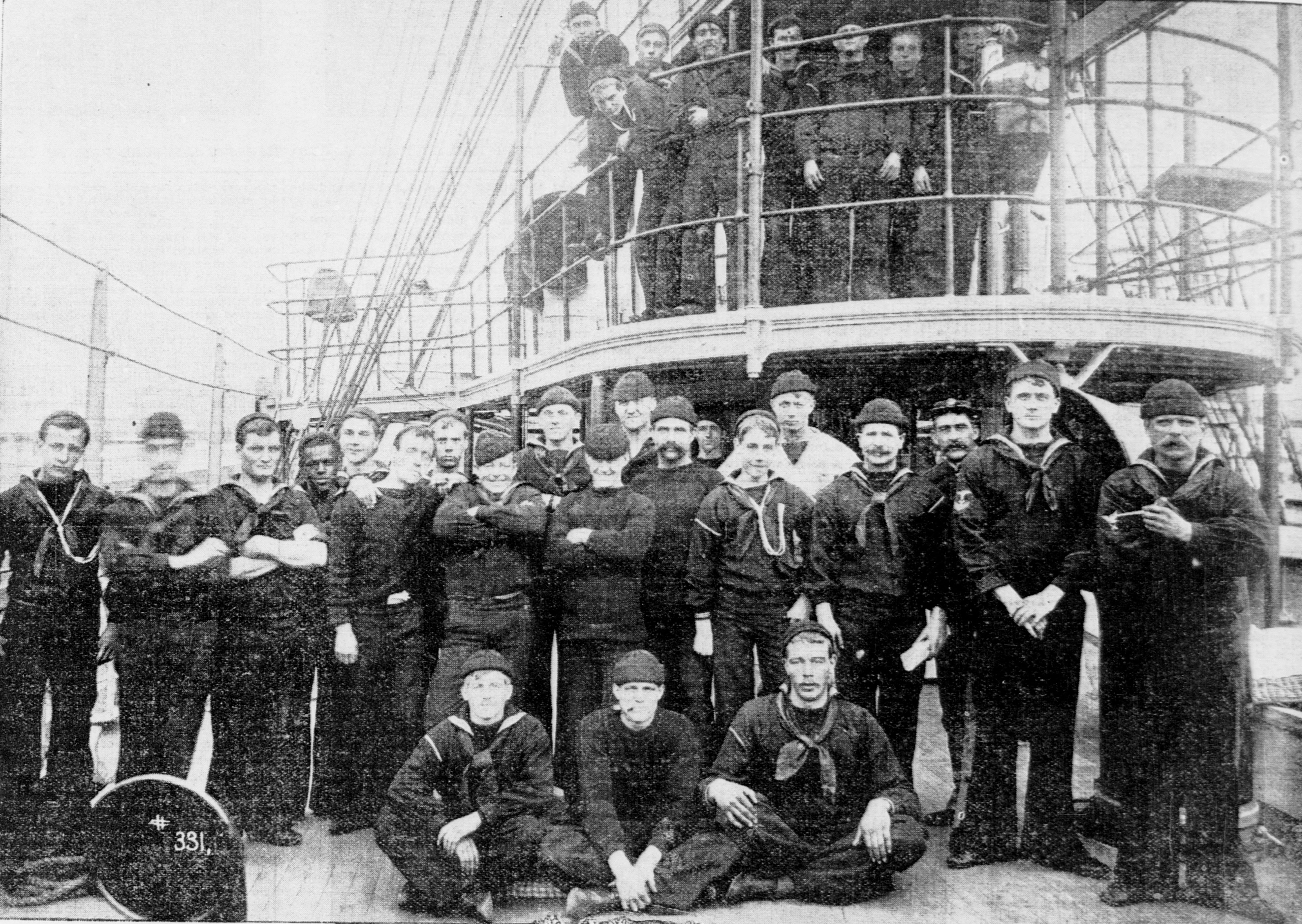 crew of the gunboat Helena in 1900, near China